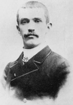 Ola Hansson (1860-1925). Swedish author and poet